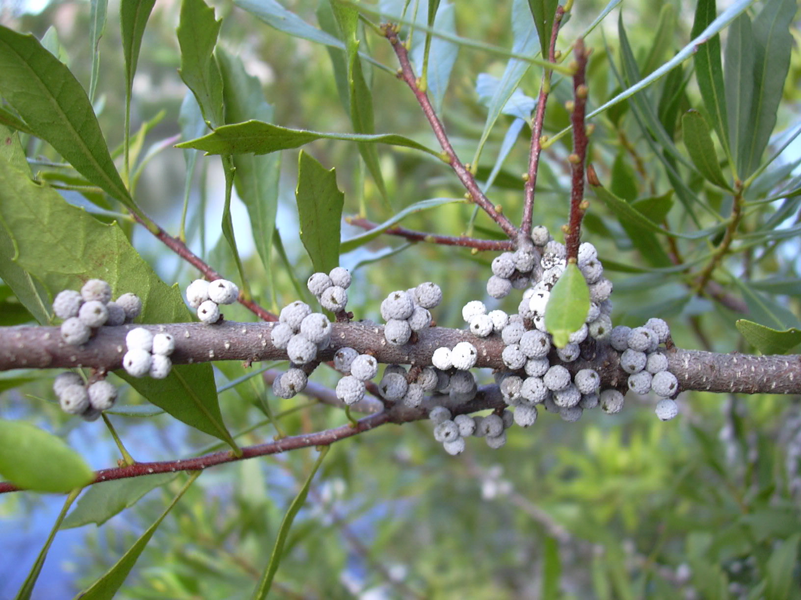 Morella cerifera (fruit). Location: Florida, Sarasota